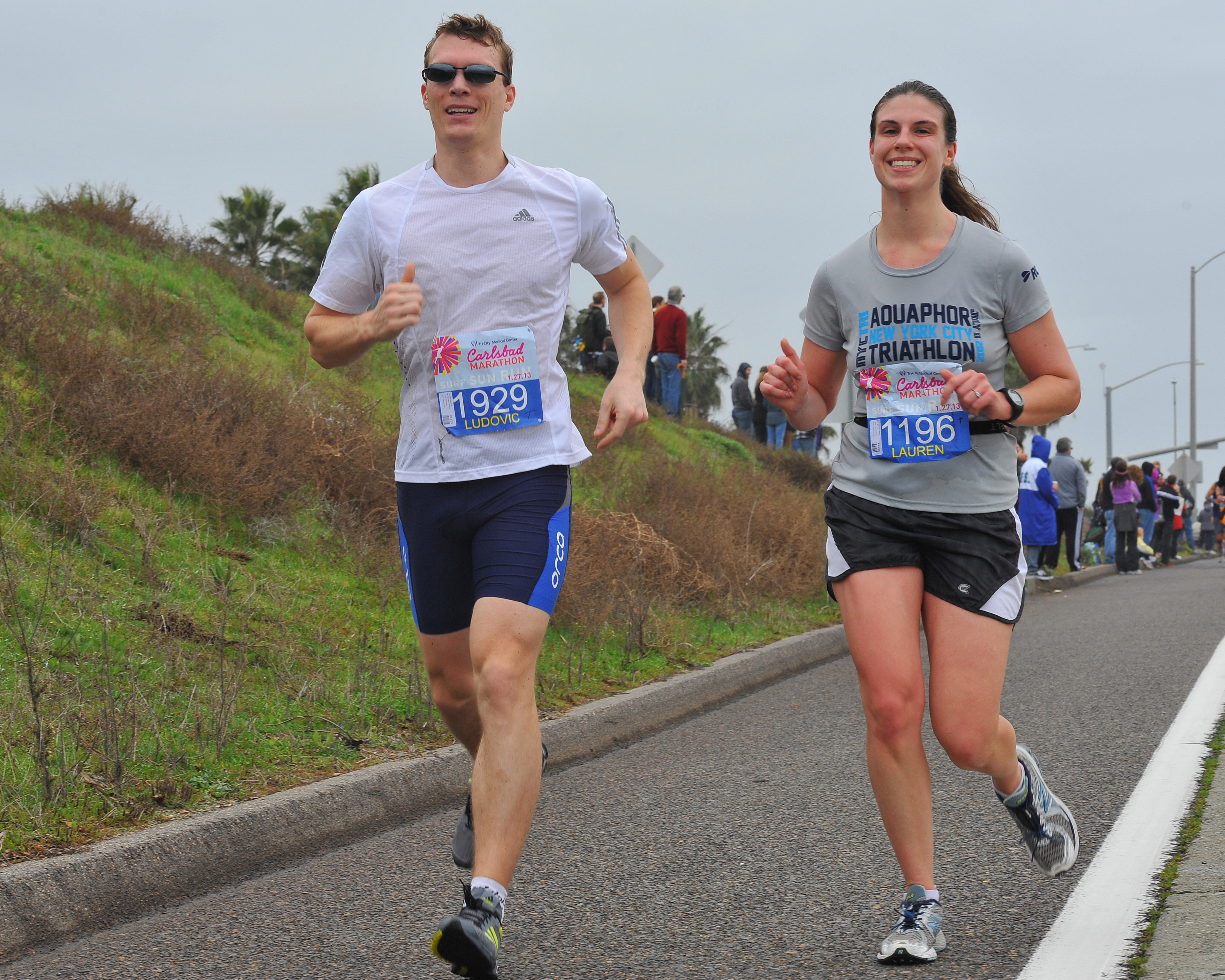 Ludovic 1929 and Lauren 1196 reach mile 21. KFH_6388 sharp_cr